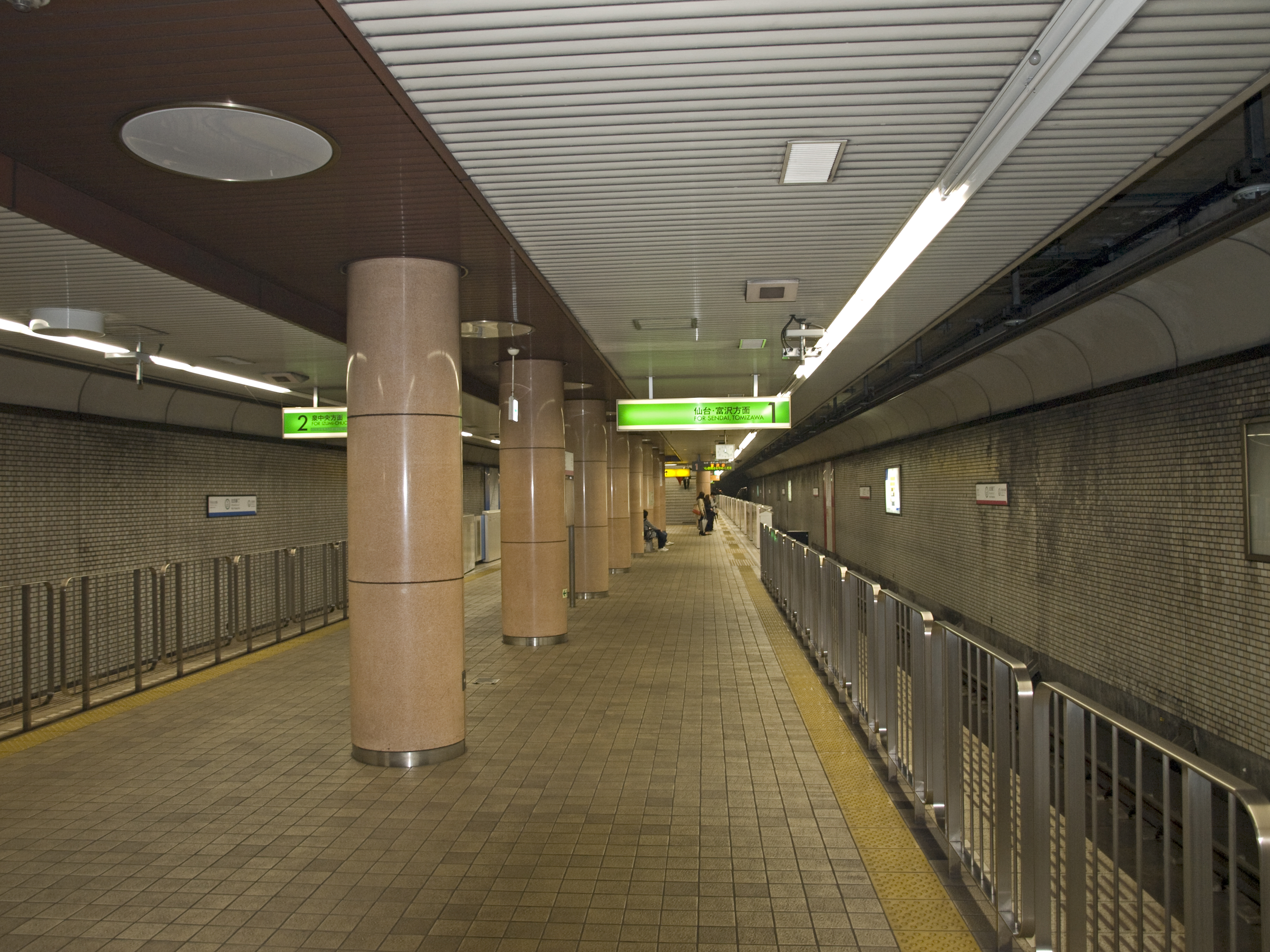 Kita-Yobancho station platforms, Sendai Metro